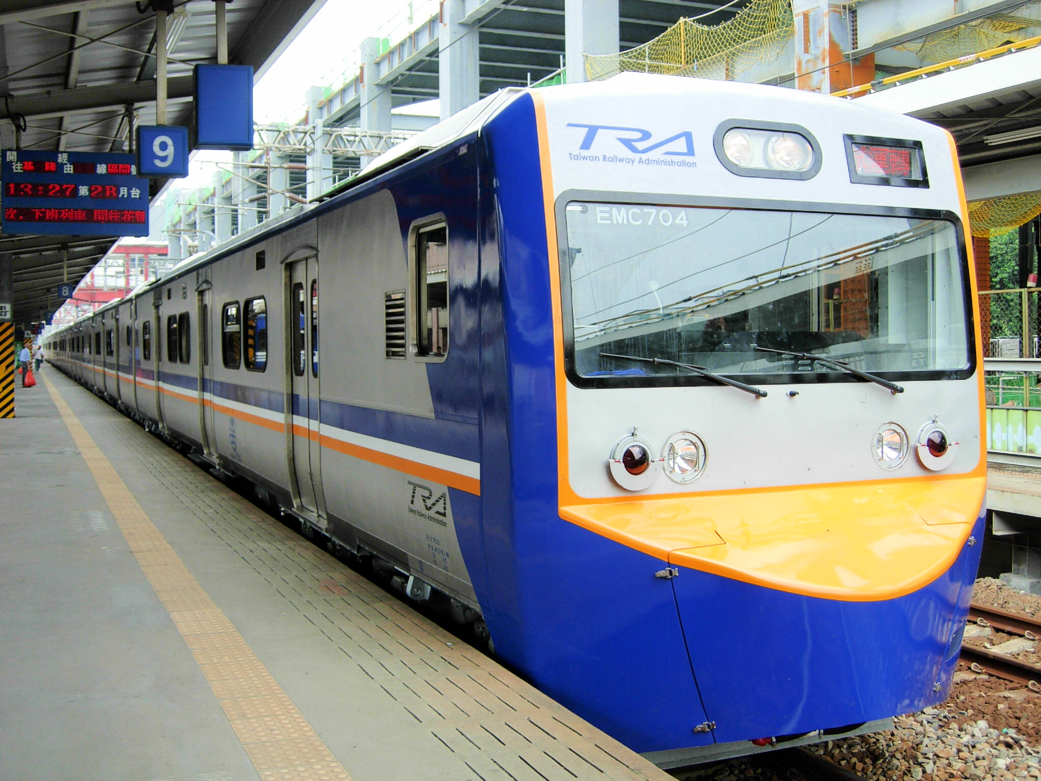 Taiwan Railway Administration EMU704 at Songshan Station.